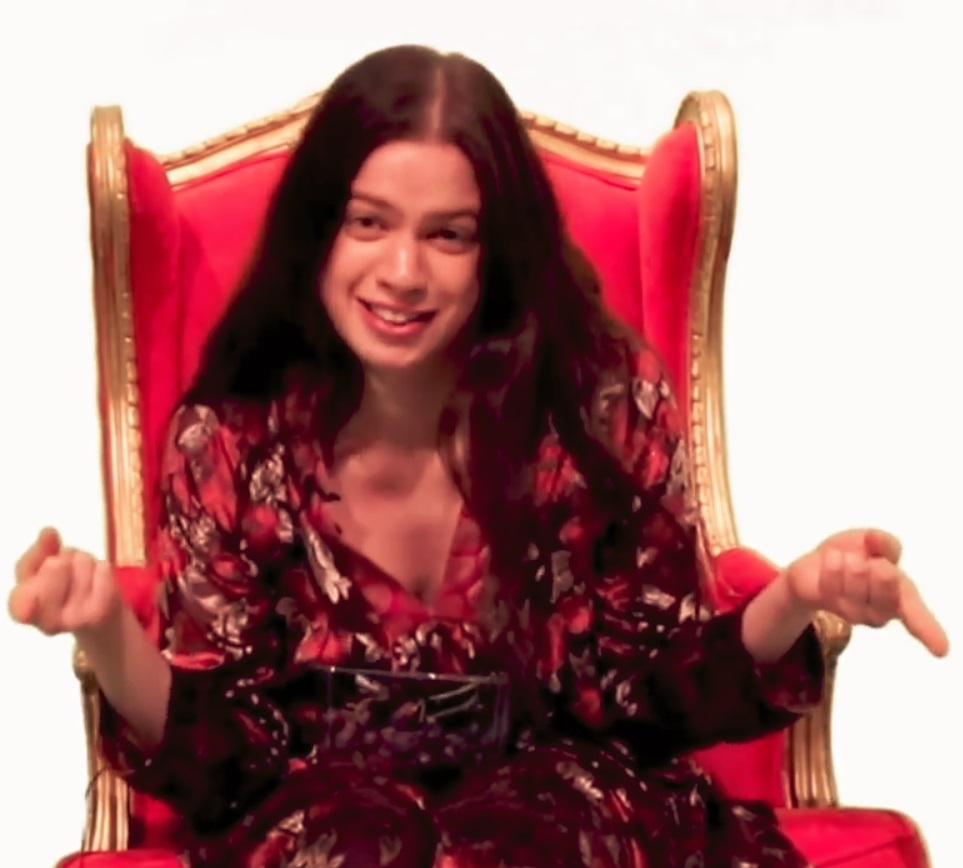 English model Lily McMenamy on Big Sister Episode 2 - Edie Campell, rumours - LOVE Edie Campbell and the rest of the 17.5 girls discuss those malicious rumours...